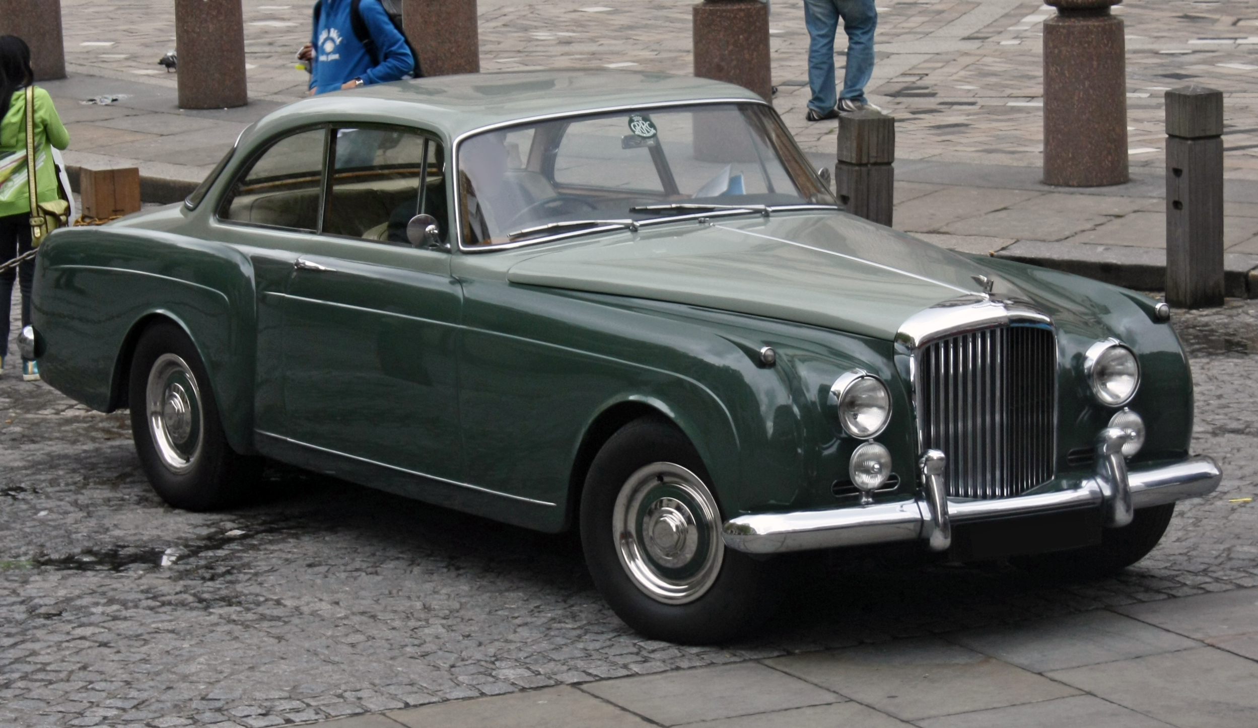 Bentley S2 Continental 2-Door Saloon H.J. Mulliner. Crop of Bentley S2 Continental St. Pauls.jpg by Robotriot.